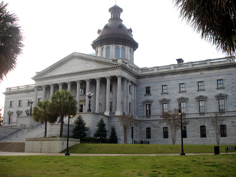 South Carolina Statehouse, Columbia, South Carolina, USA. Author: myself.